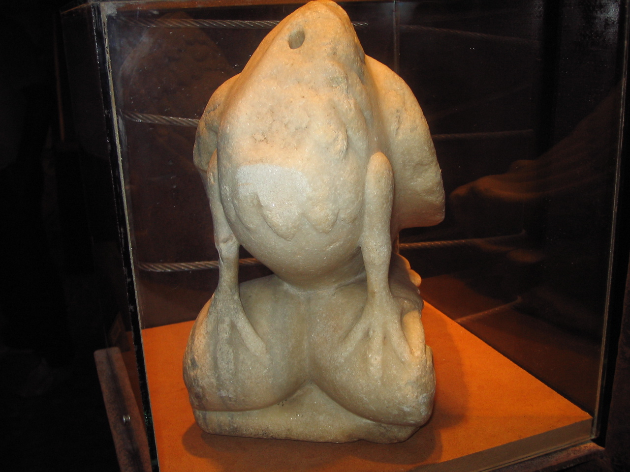 Archeological Museum Shkodra